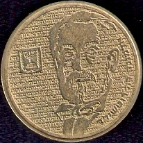 Back side of 1/2 Israeli new sheqel coin depicting Sir Edmond Rotschild